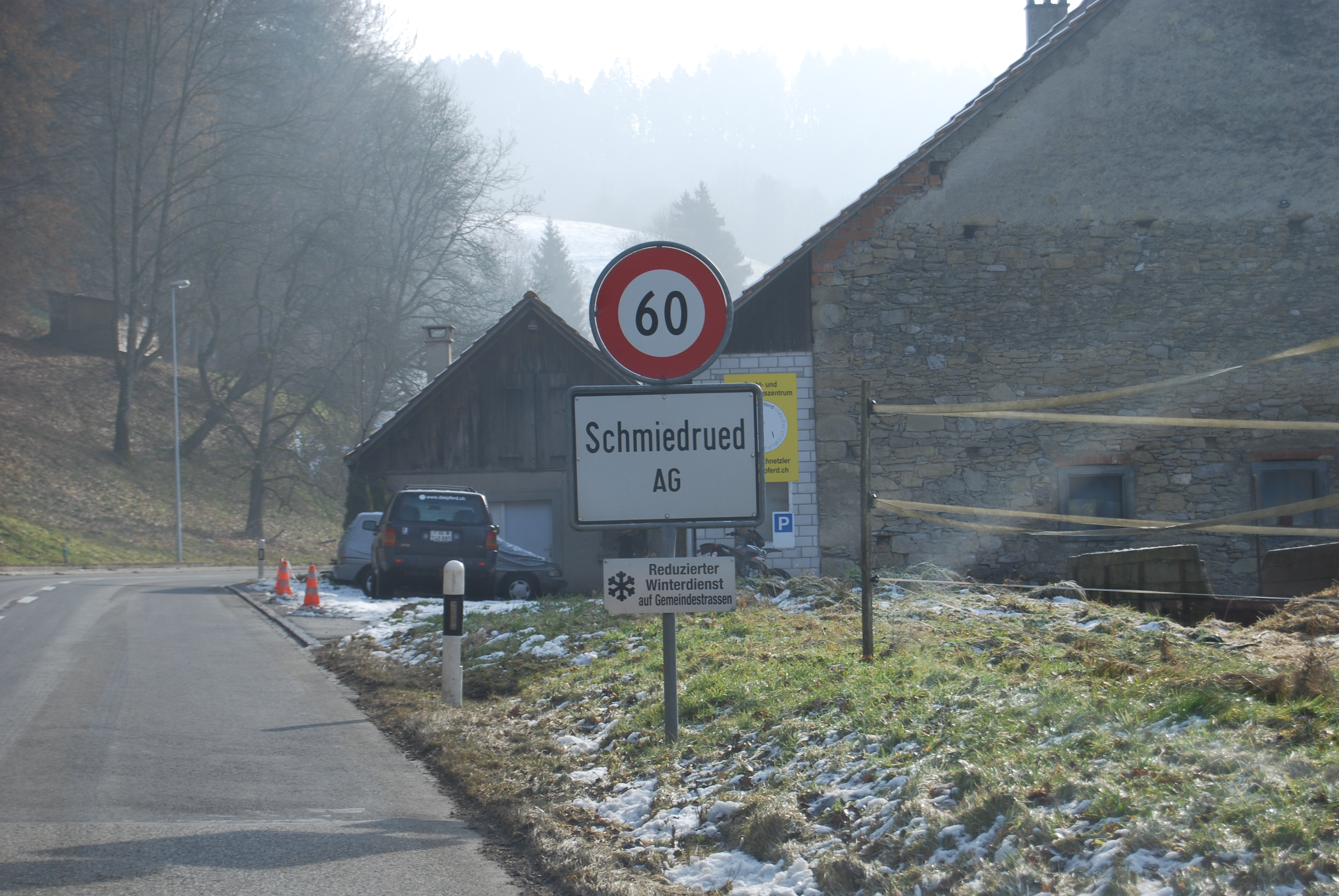 Schmiedrued, canton of Aargau, SwitzerlandEsperanto: Schmiedrued, Kantono Argovio, Svislando